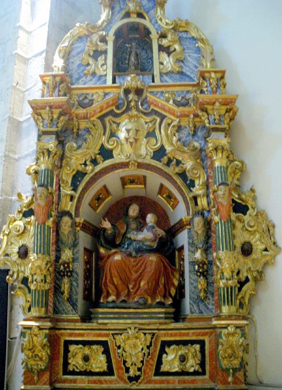 Retablo barroco de Santa Ana, en la iglesia del convento de Santa Clara de Cuéllar (provincia de Segovia, Castilla y León, España).